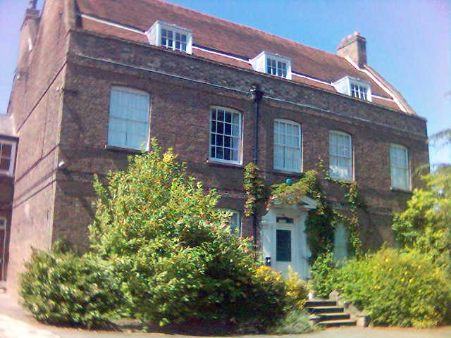 A photograph of the East 15 Acting School, Loughton, Essex, taken by myself.